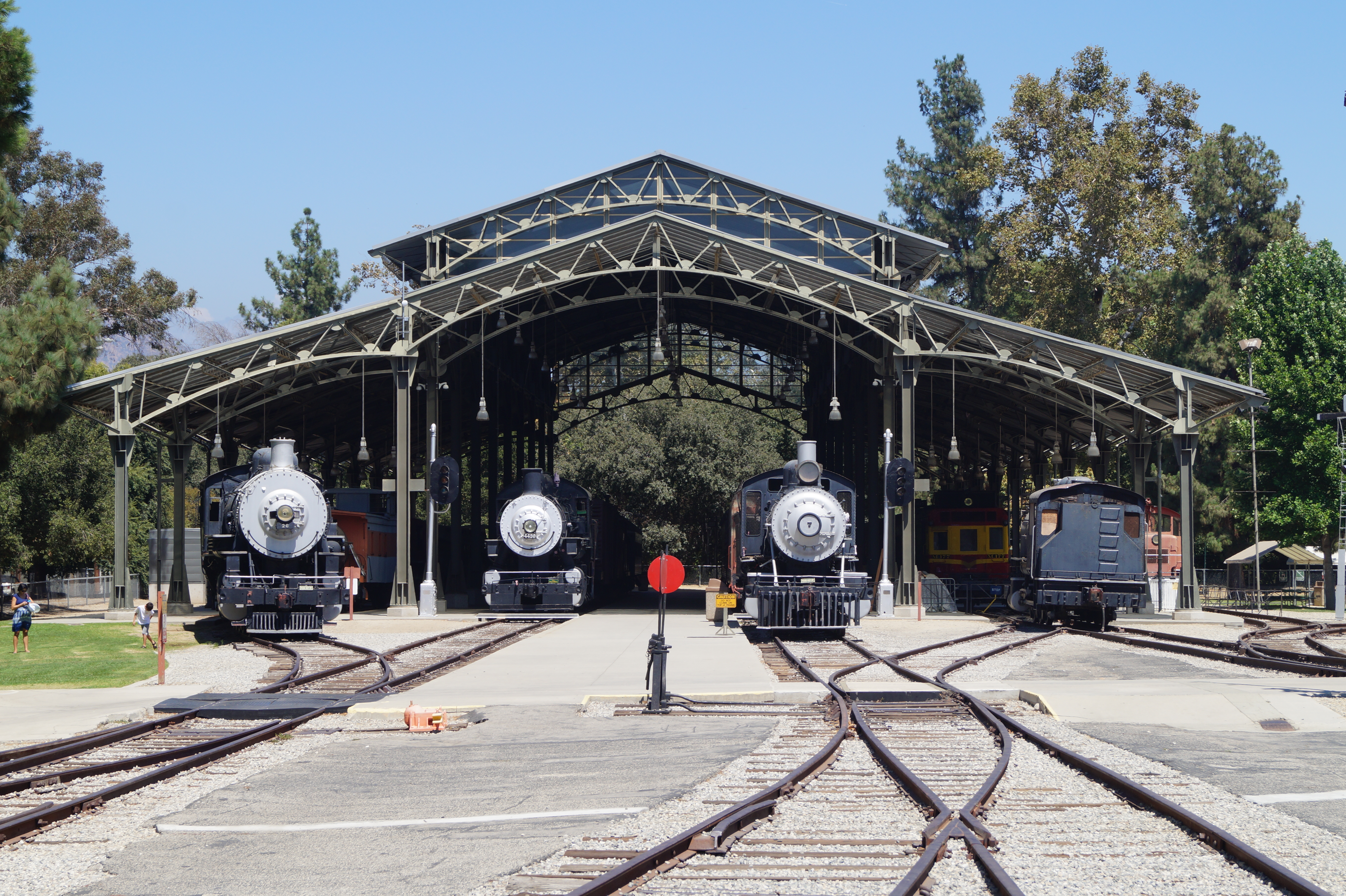 Travel Town Museum is a transport museum dedicated in the northwest corner of Los Angeles, California's Griffith Park. The history of railroad transportation in the western United States from 1880 to the 1930s is the primary focus of the museum's collection, with an emphasis on railroading in Southern California and the Los Angeles area.